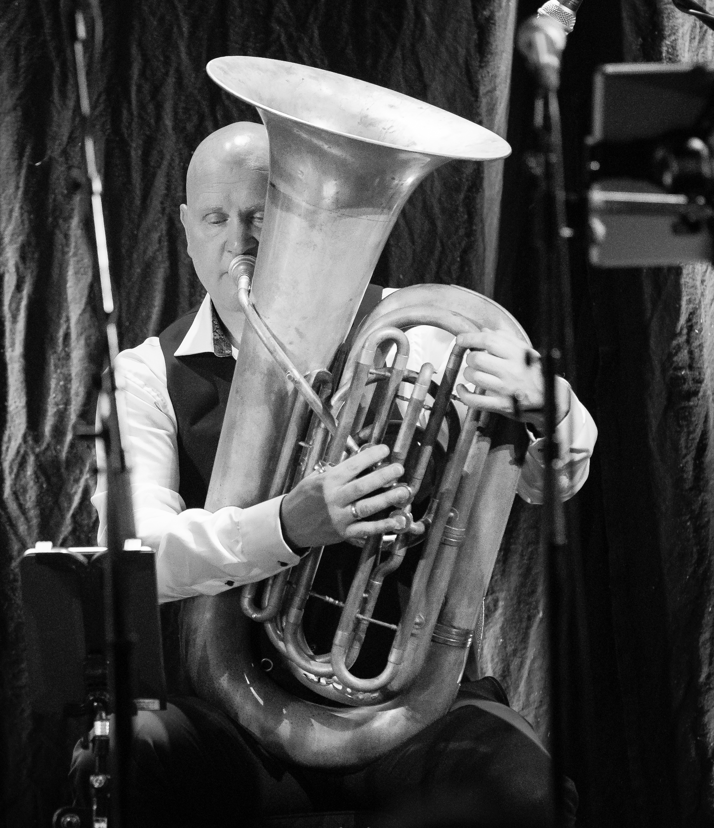 David Gald in a concert with Ytre Suløens Jass-ensemble and Tricia Boutté at Thon Hotel Jølster. The concert was part of Jazz på Jølst and took place on 11. October 2019 in Jølster. Lineup:Tricia Boutté (vocal)Lars Frank (clarinet)Sturla Hauge Nilsen (trumpet)Andreas Rotevatn (trombone)Einar Aarø (banjo and guitar)David Gald (tuba)Askjell Molvær (piano)Kristoffer Tokle (drums)